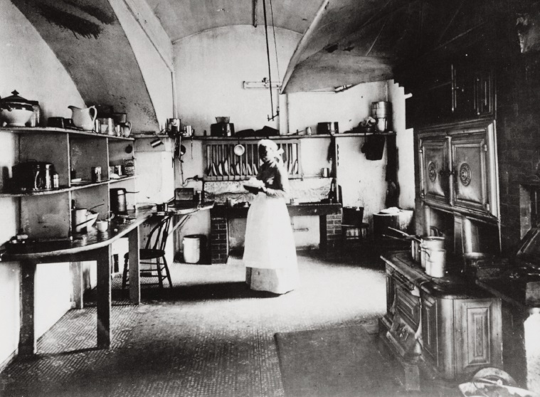 Dolly Johnson, the family cook for President Benjamin Harrison and his family, in the small kitchen in the northwest corner of the ground floor of the White House in Washington, D.C., in the United States about 1890.